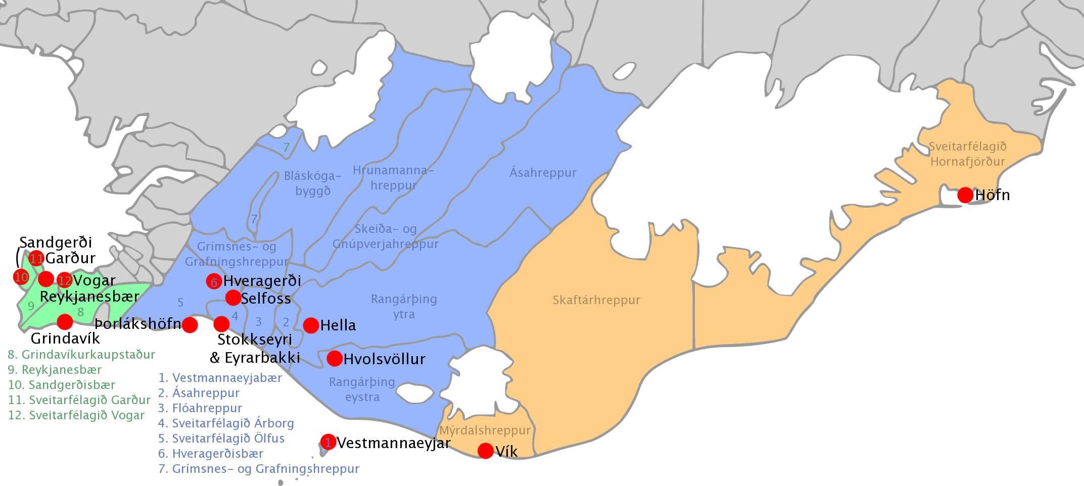 A map of the Southern electoral district in Iceland.